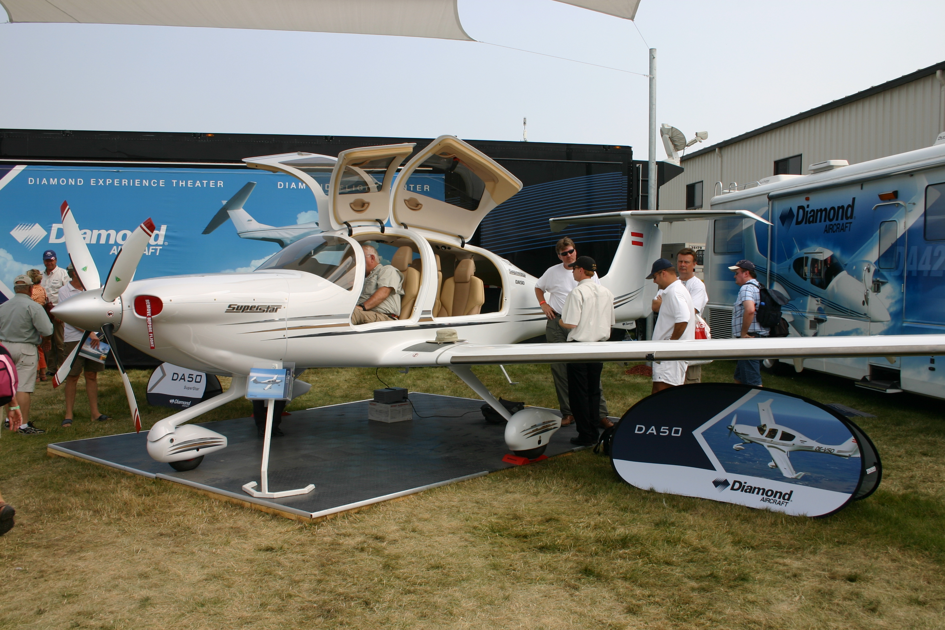 Diamond DA50 at Airventure 2007